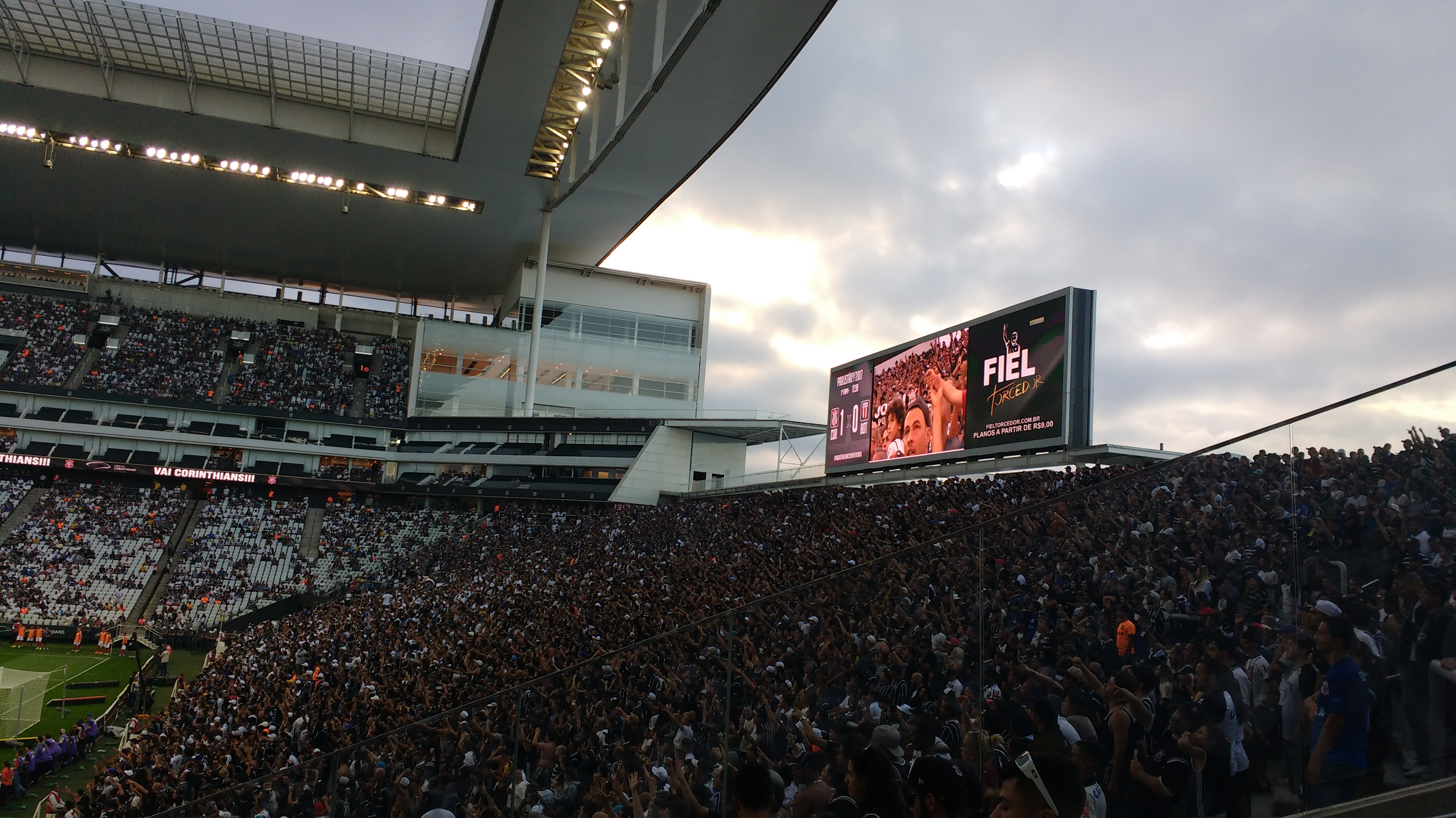 Arena Corinthians - Northern Sector destined to the organized cheerleading area!